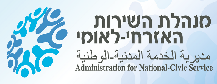 the administration logo